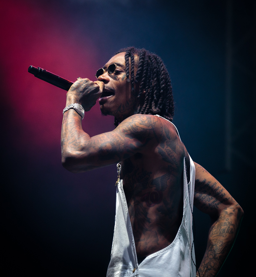 Wiz Khalifa the main stage at Stavernfestivalen. The concert was part of Stavernfestivalen and took place on 12. July 2018 in Stavern. Lineup:Wiz Khalifa (rap)